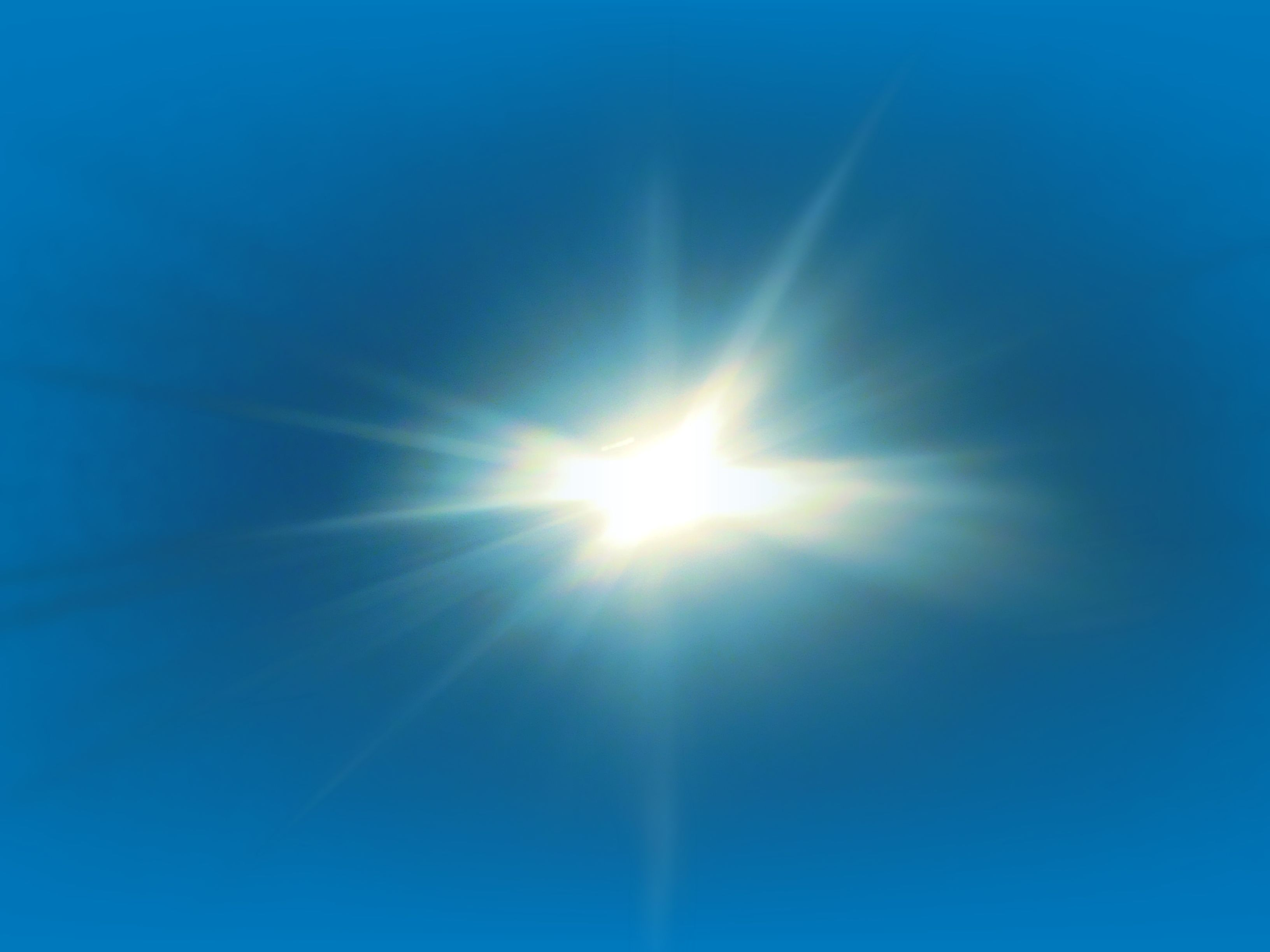 A powerful light shining in the dark on blue background